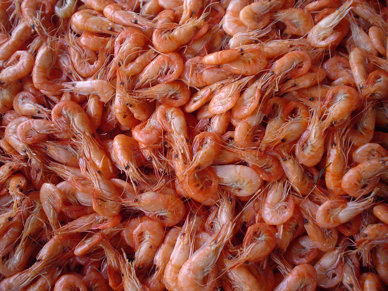 Coocked prawns in the Pryvoz Market, Odessa, Ukraine